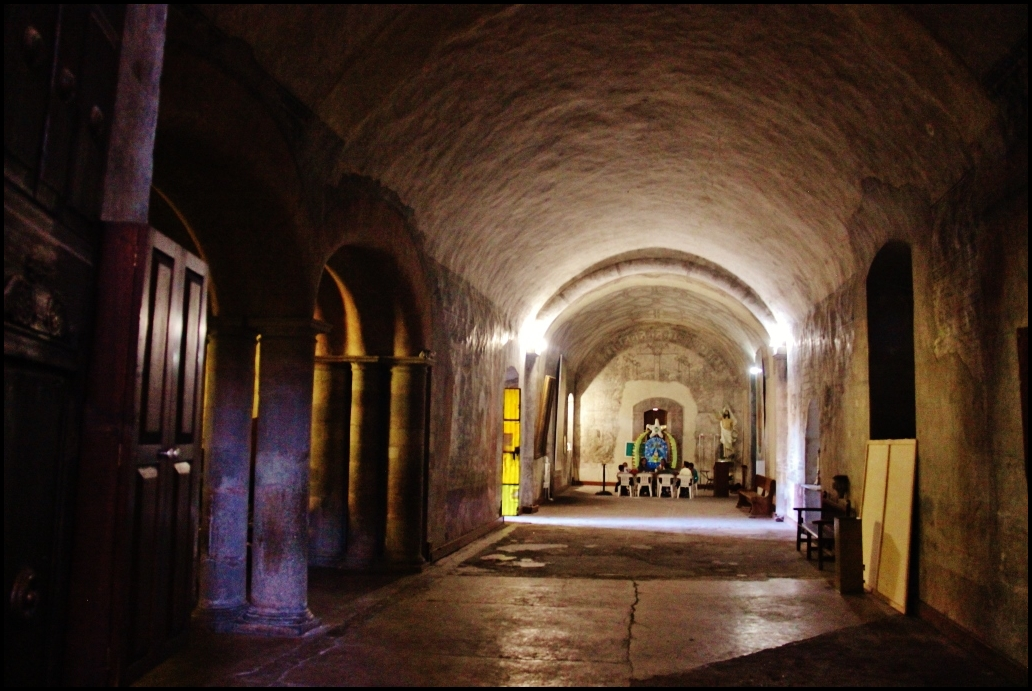 Ex Convento Agustino Siglo XVI (San Nicolás Tolentino) Actopan,Estado de Hidalgo,México